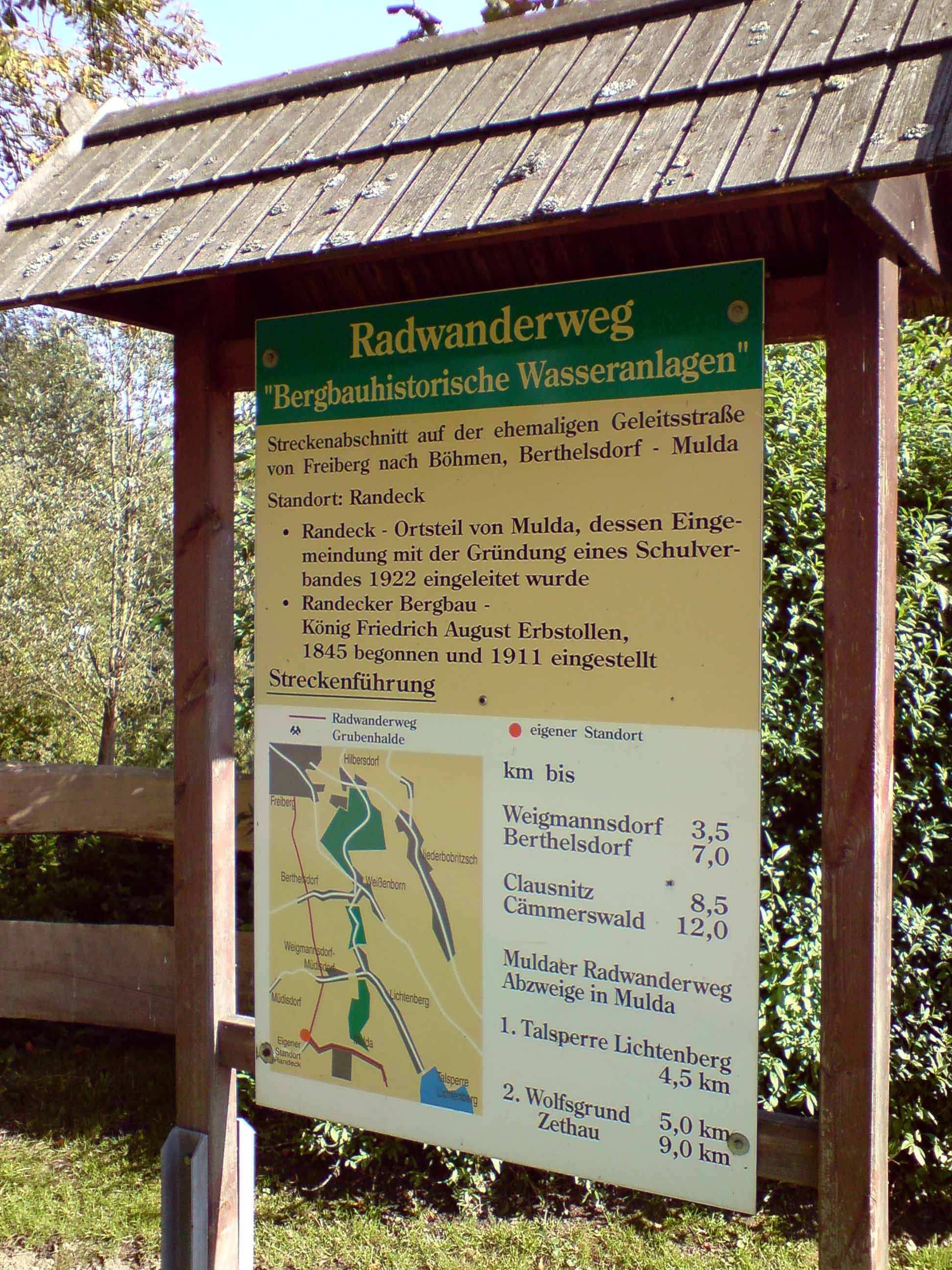 Infosign in Randeck